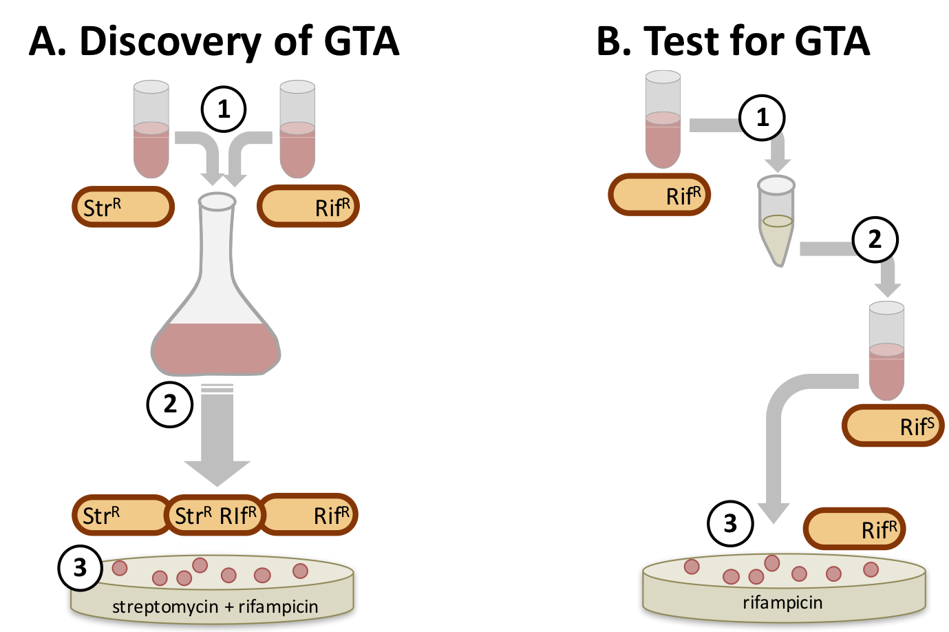 Schematic diagram of assays for Bbacterial Gene Transfer Agents